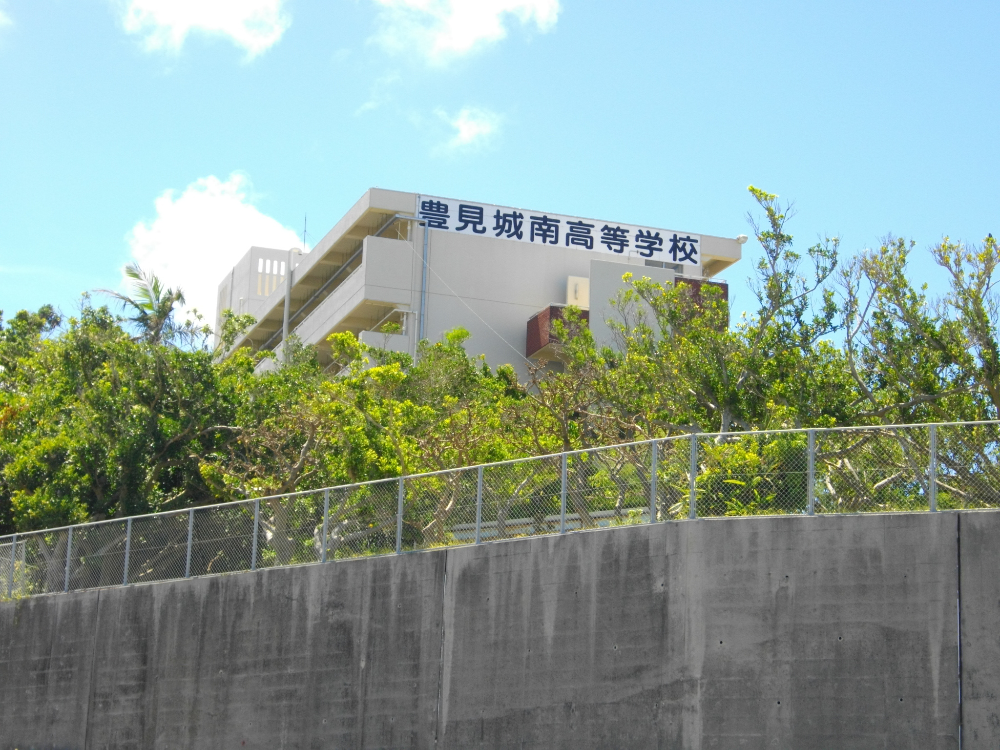 Tomishiro-Minami High School